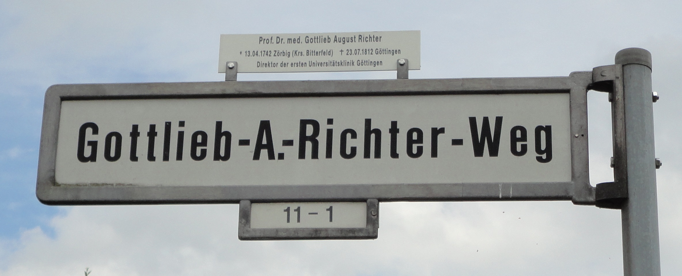 Göttingen-Weende, road sign Gottlieb-Richter-Weg